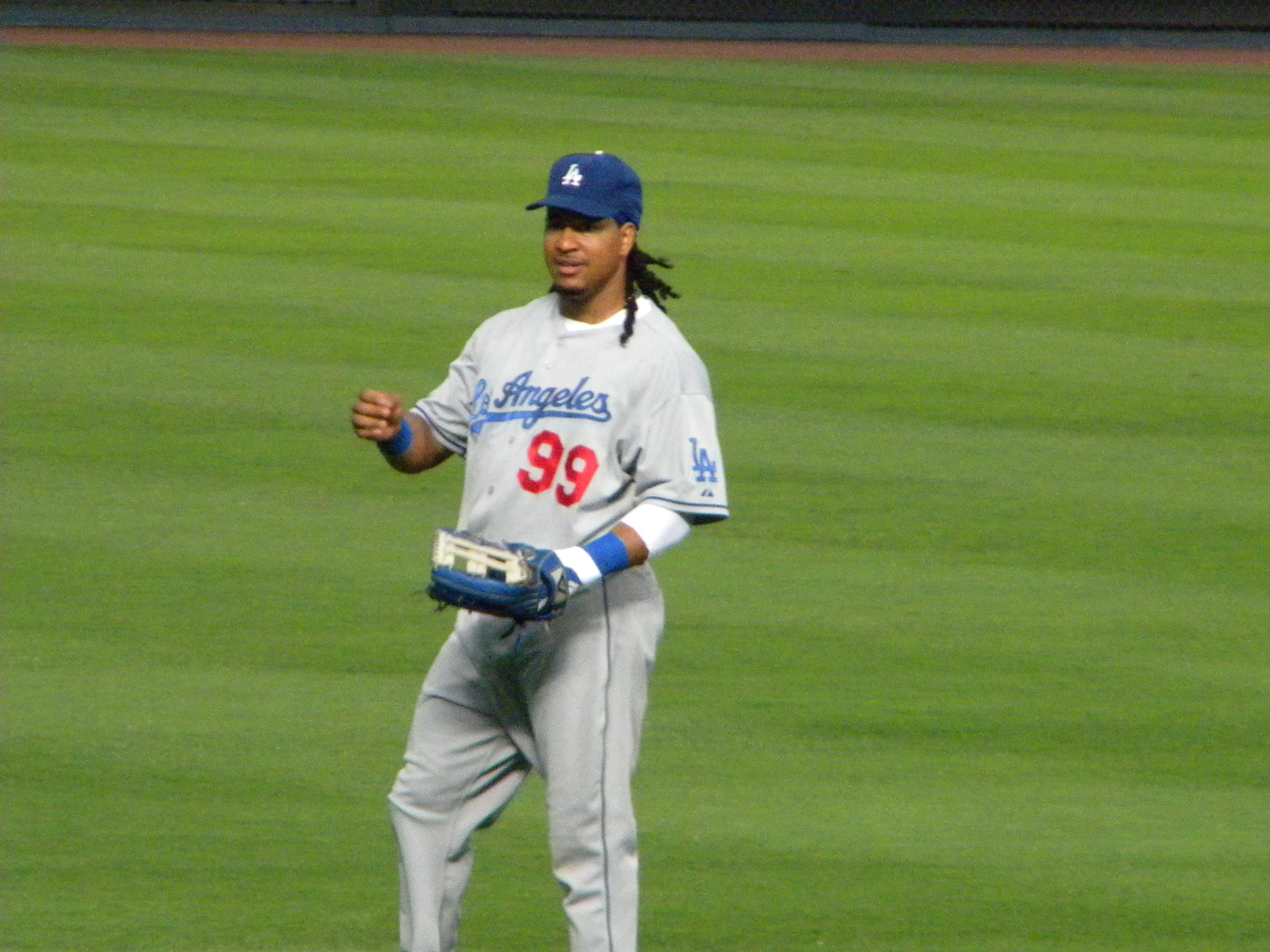 Picture I took at an Atlanta Braves vs LA Dodgers baseball game on August 3, 2009.